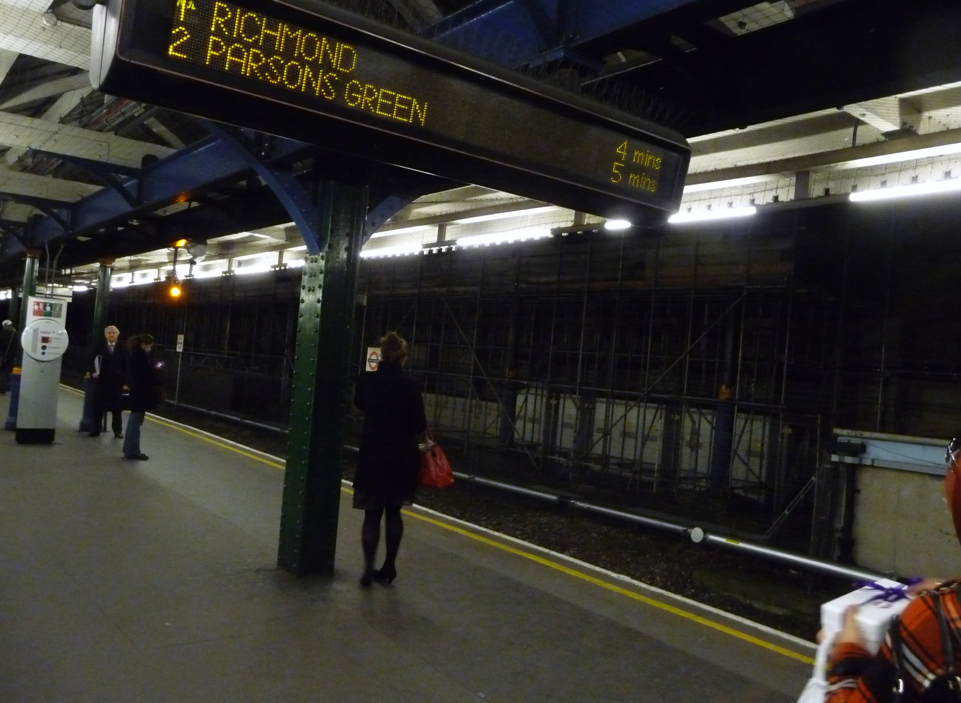 London : South Kensington Underground Station South Kensington is a London Underground station in Kensington, west London. It is served by the District, Circle and Piccadilly lines. On the District and Circle lines, the station is between Gloucester Road and Sloane Square, and on the Piccadilly Line, it is between Gloucester Road and Knightsbridge.